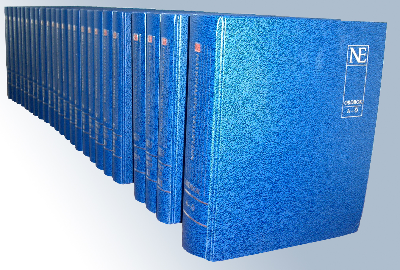 Nationalencyklopedin